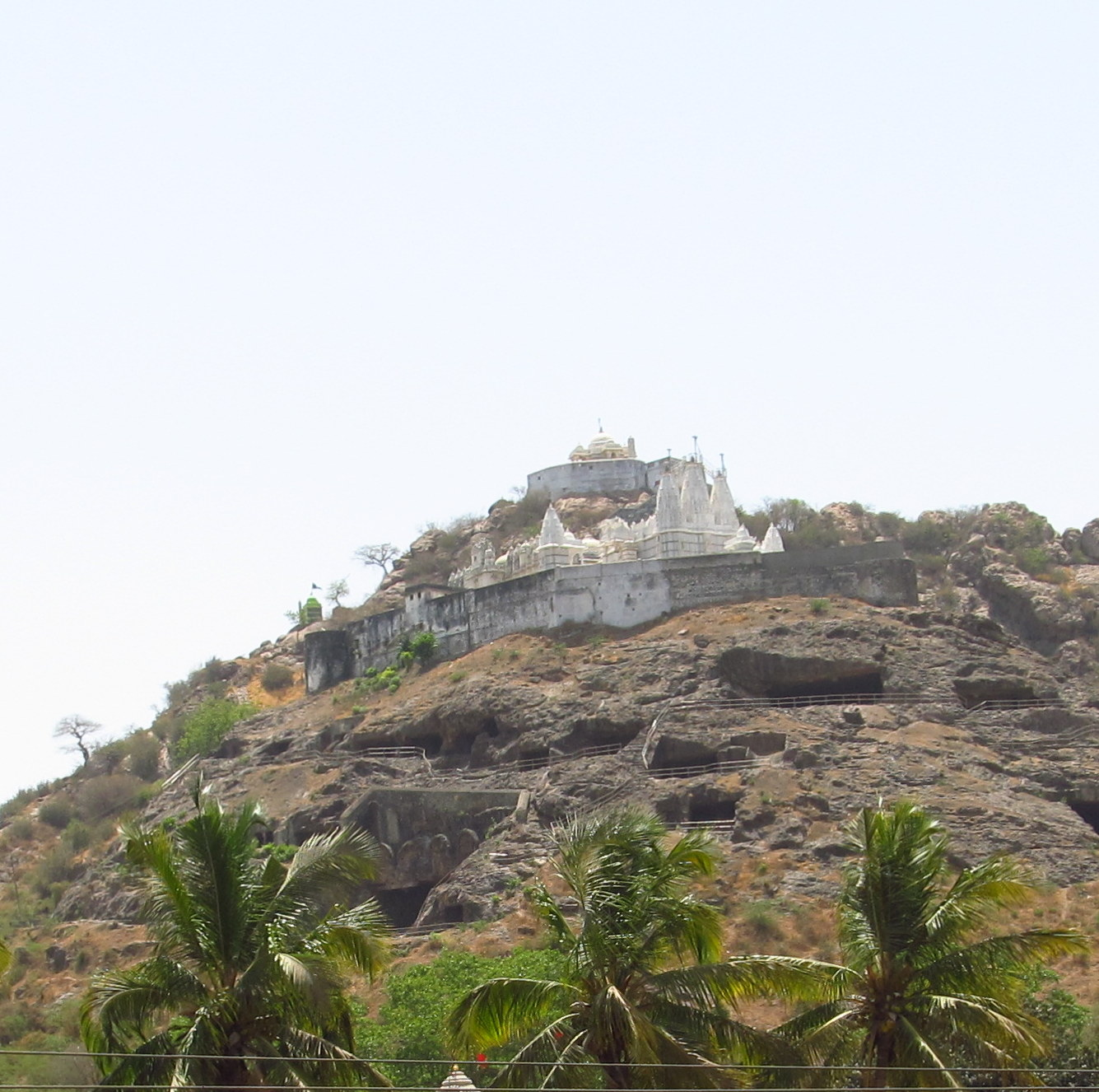 Jain temples